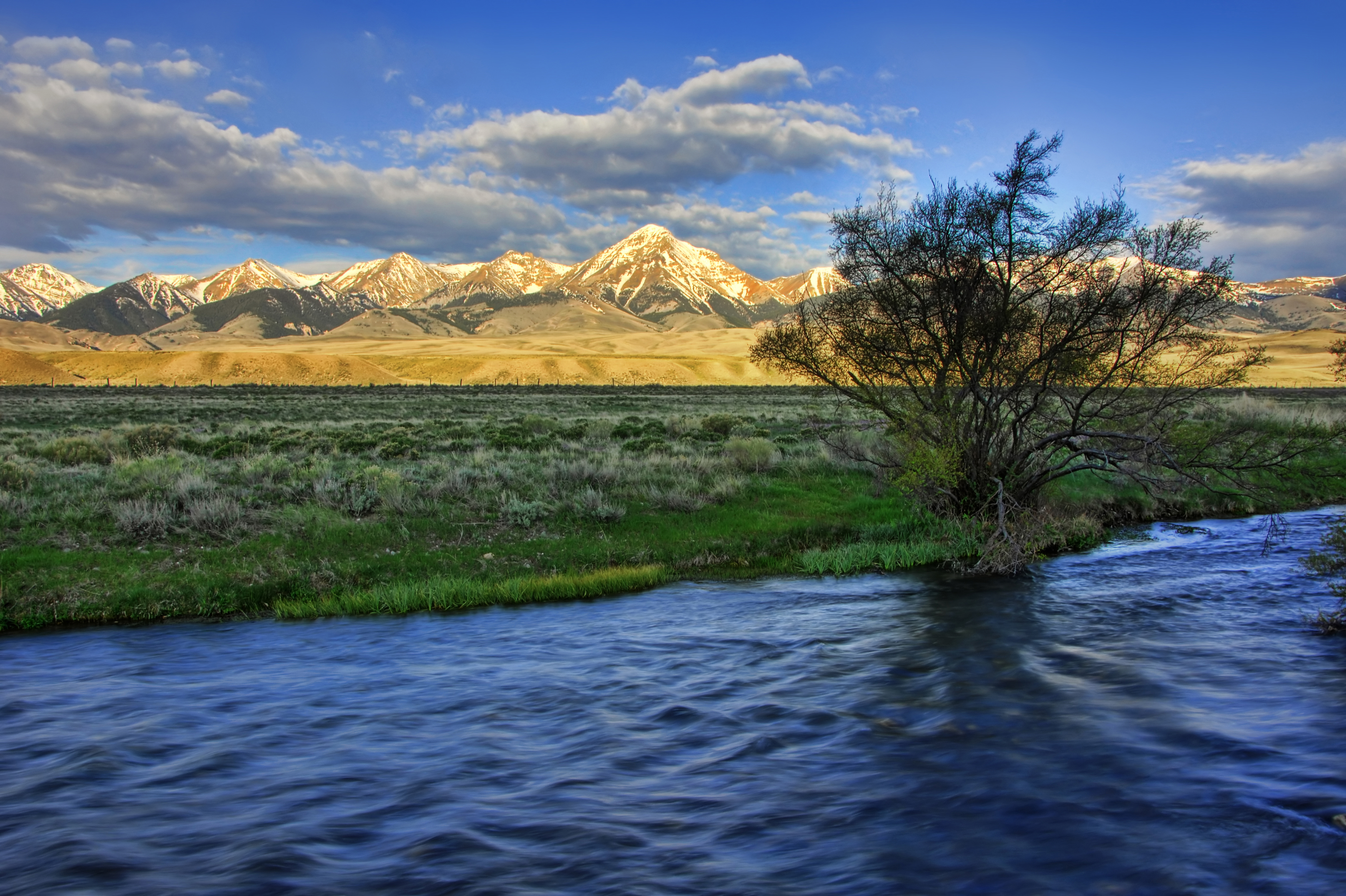 Birch Creek and Lemhi Mountains, Neeley